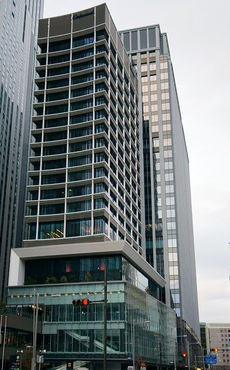 Tekkou Building South